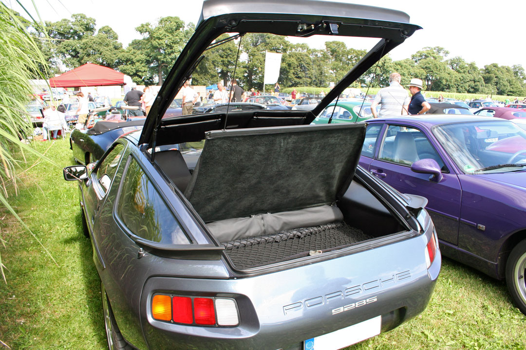 Luggage compartment of a Porsche 928 S at Classic Days Schloss Dyck 2012.